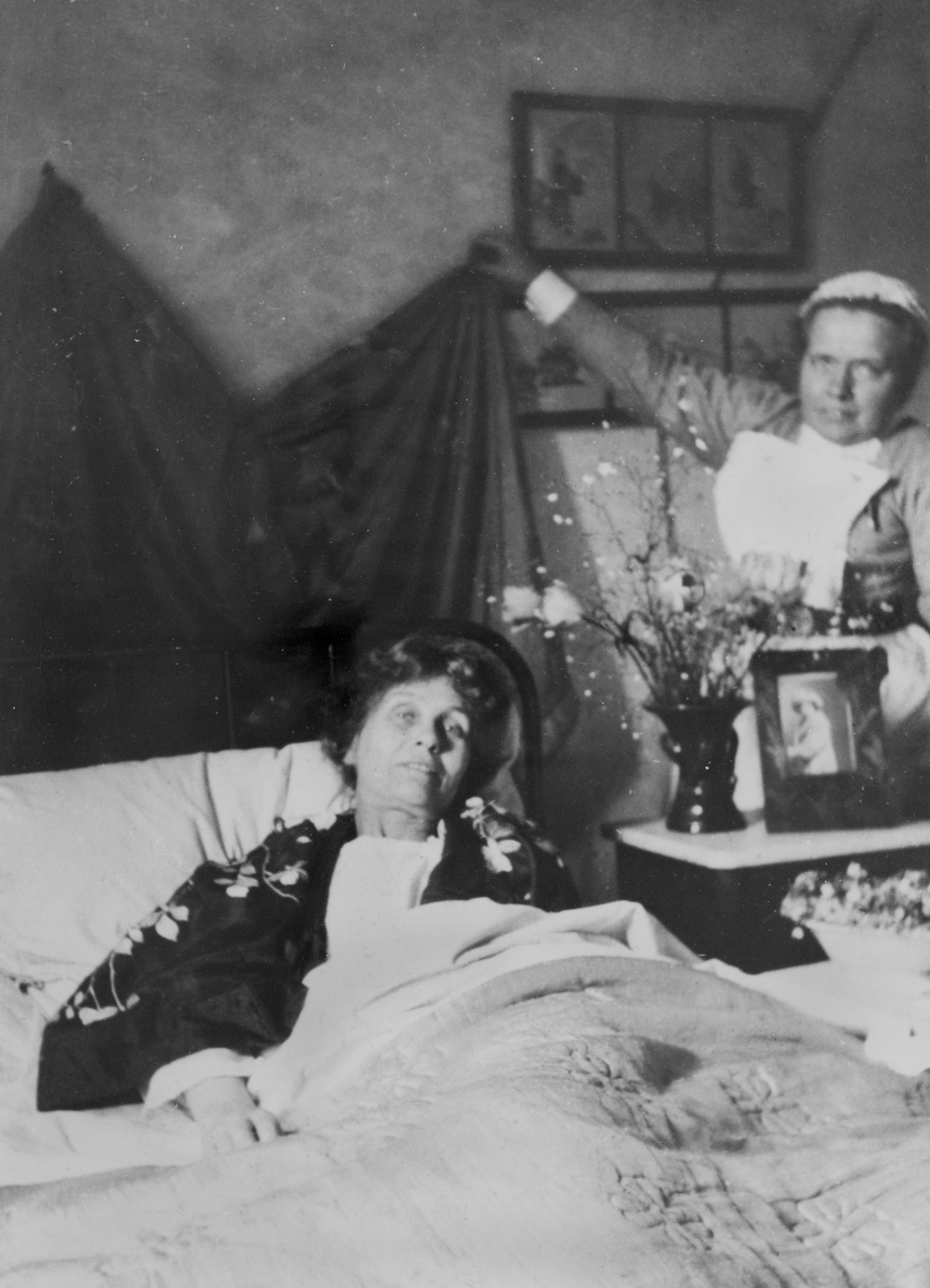 7JCC/O/02/092Photograph, modern reproduction, printed, paper, monochrome, Emmeline Pankhurst in bed, Catherine Pine in the background; manuscript inscription on reverse 'Mrs Pankhurst and Nurse Pyne [sic]'